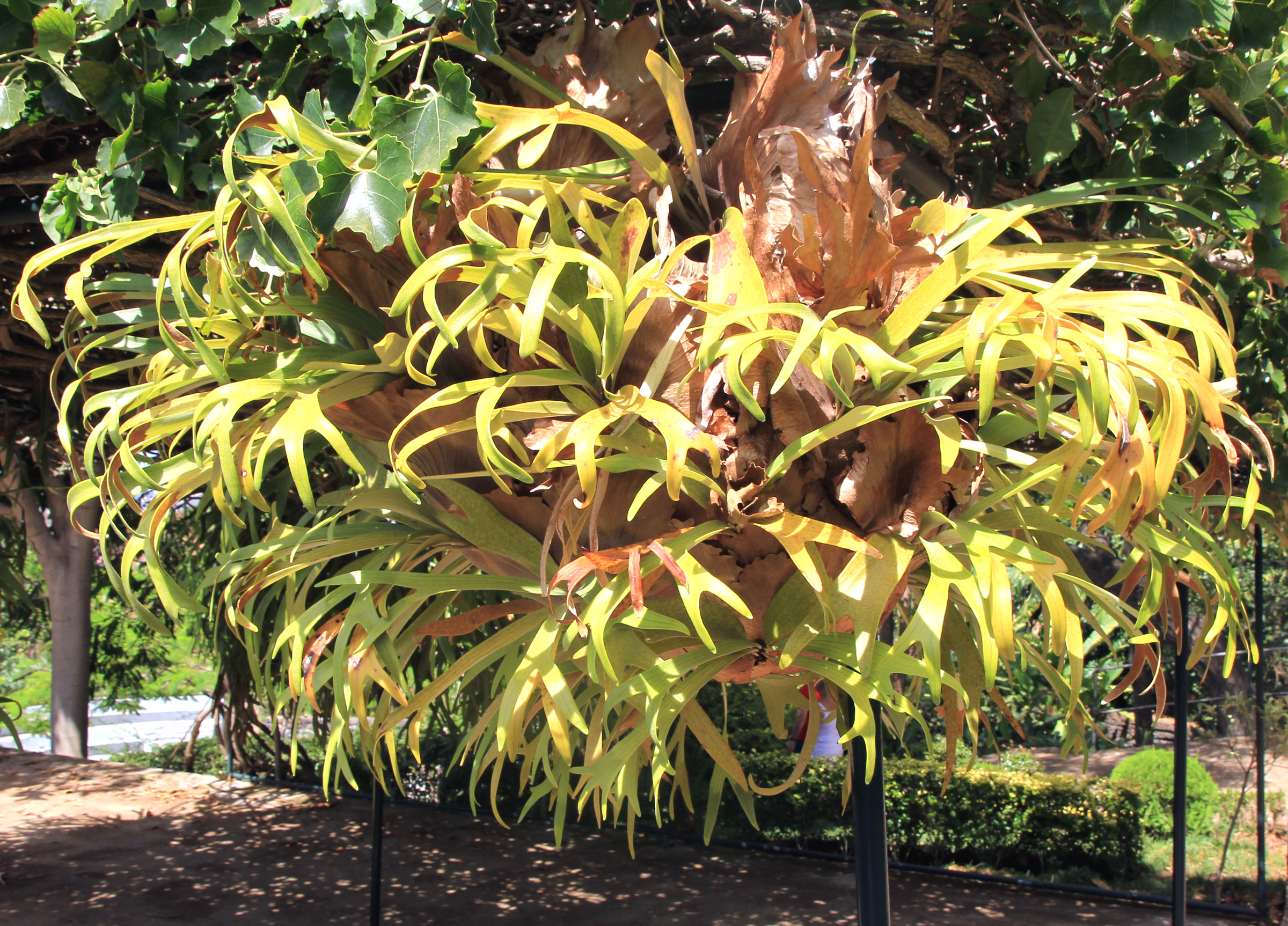 The fern Platycerium bifurcatum in the Madeira Botanical Garden in the city Funchal, Madeira